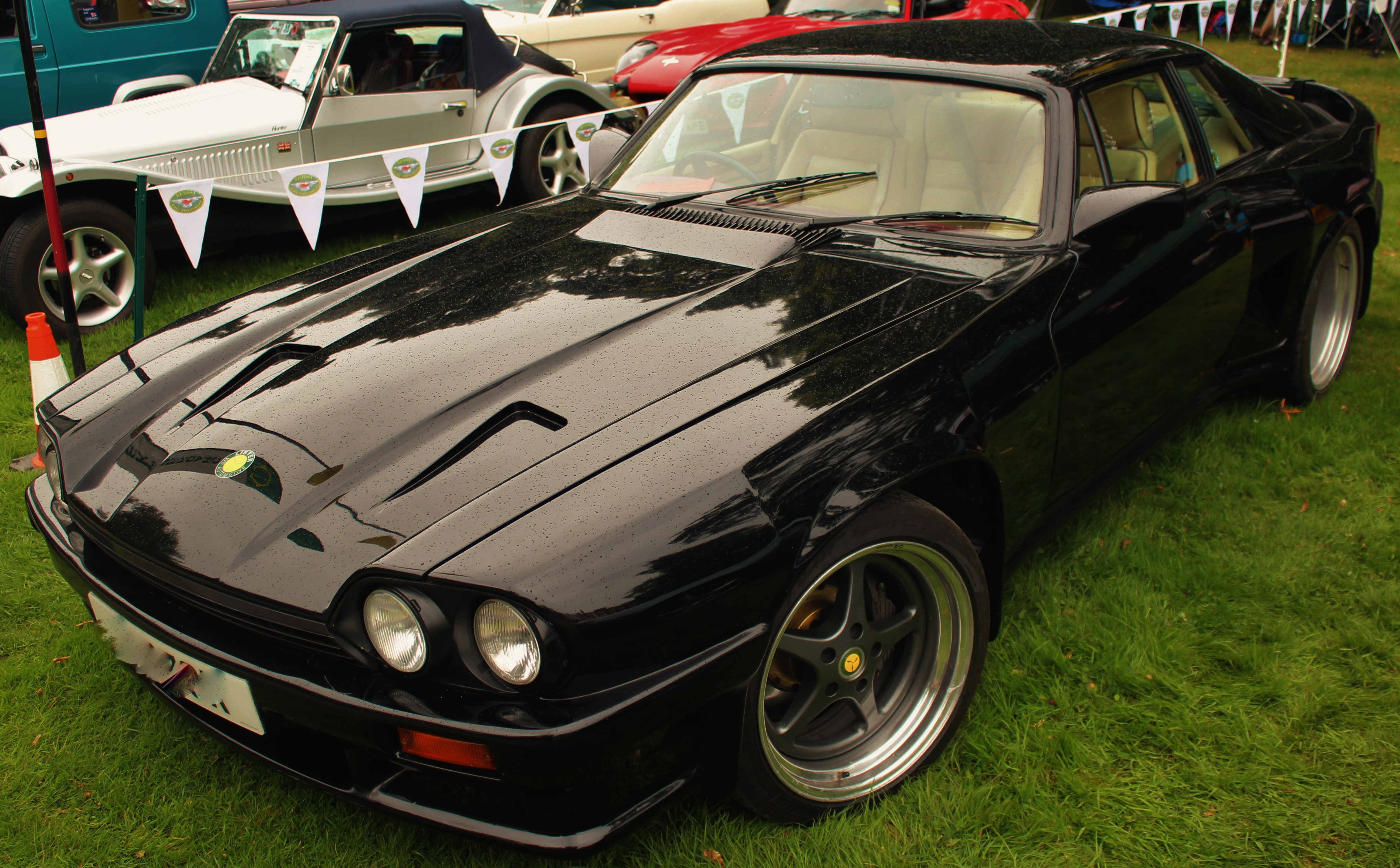 Lytham Hall Classic Car Show Sunday 2nd August 2015